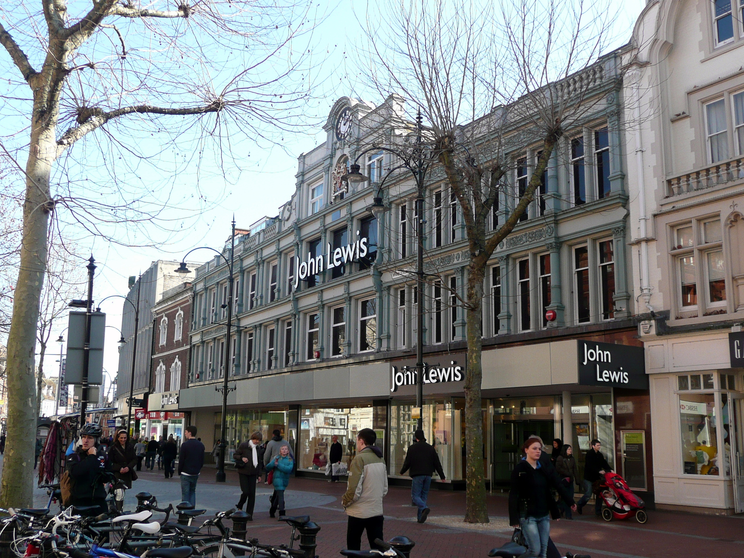 Heelas (john Lewis), Broad Street, Reading. Built 1870, possibly to designs by W F Woodman.